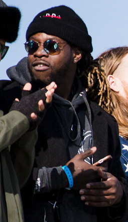 February 8, 2018 Philadelphia, PA